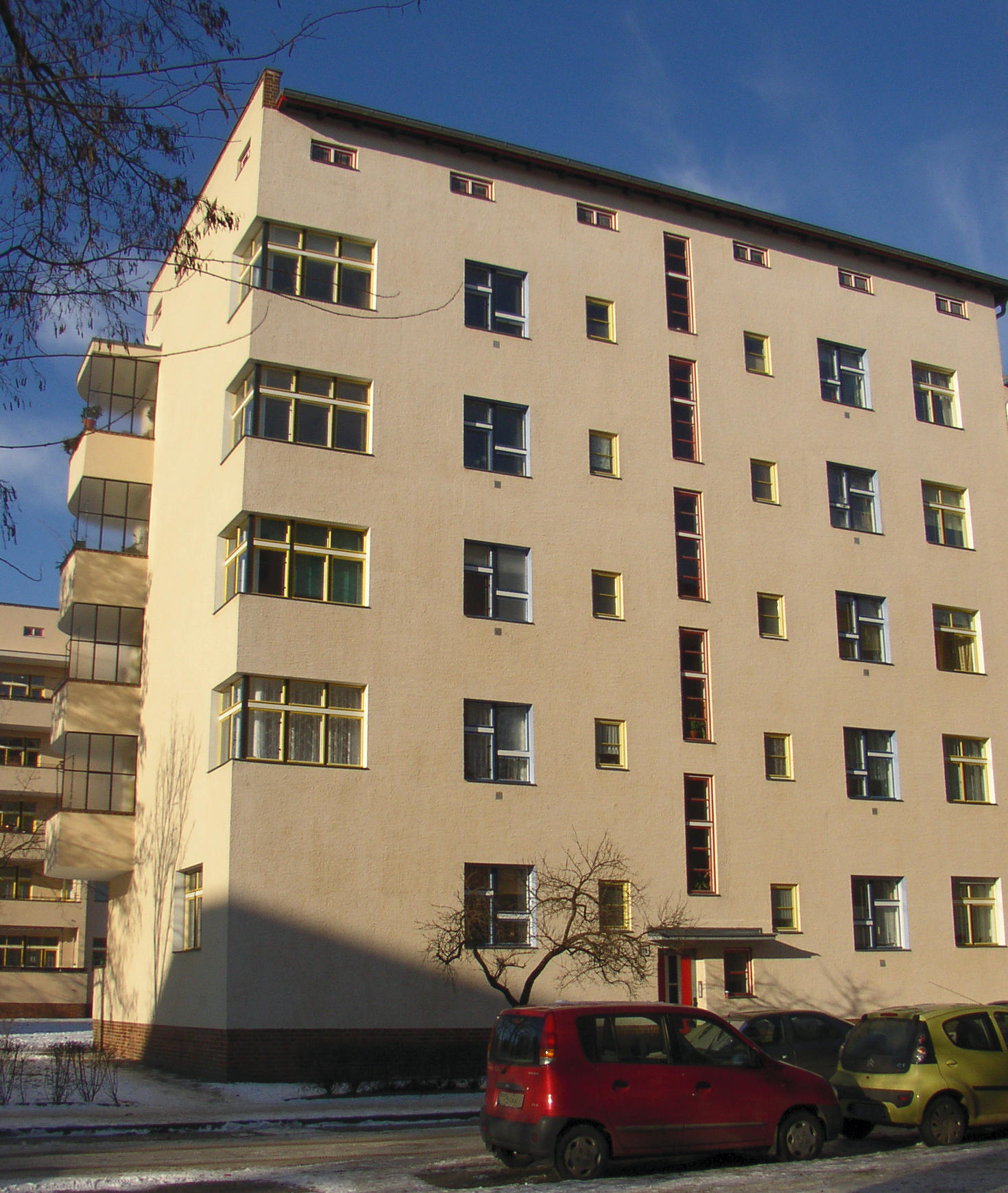 Wohnstadt Carl Legien in Berlin-Prenzlauer Berg, Germany (planner Bruno Taut)